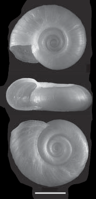 Photo of apical, apertural and umbilical view of the shell of Biomphalaria tenagophila. Scale bar = 3 mm. Locality: near Răbăgani, Romania, Eastern Europe (46°45´1.3´´N, 22°12´44.8´´E) in a hypothermal spring. Date: spring 2005, autumn 2006, and autumn 2007.